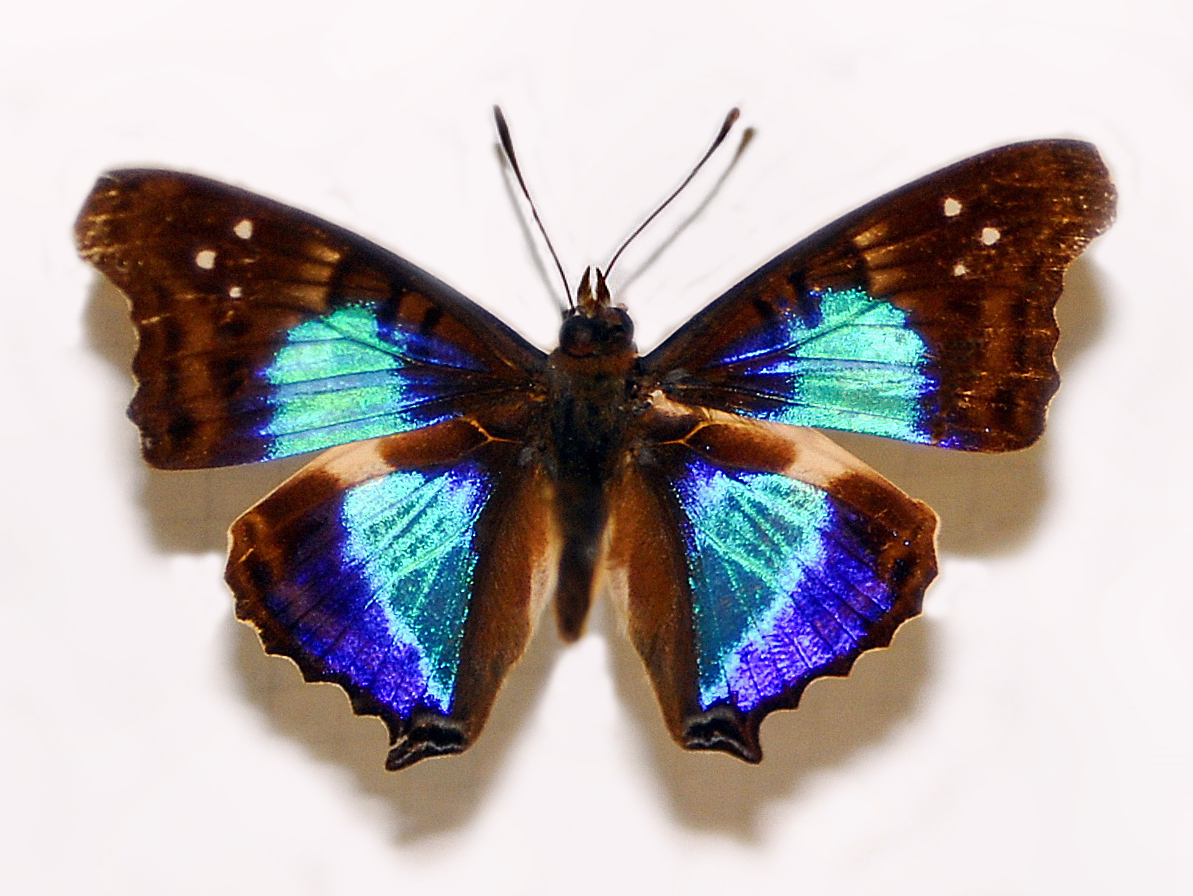 Doxocopa cyane, male. On display at the Museo Archeologico e di Scienze Naturali F. Eusebio, Alba, Italy